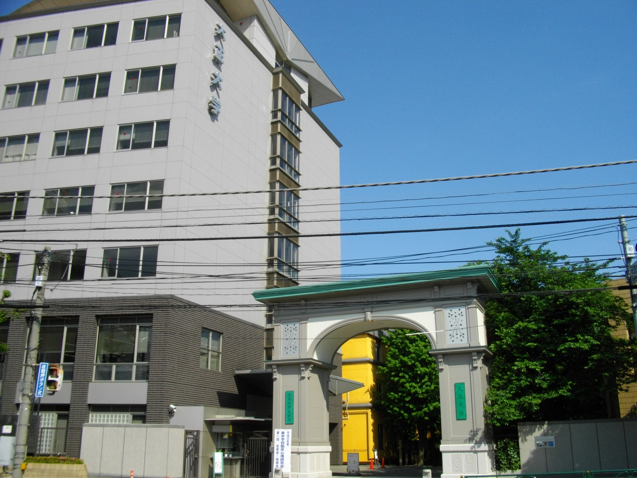 Taisho University Sugamo Campus